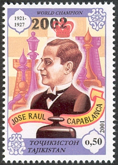 Stamp of Tajikistan. José Raúl Capablanca y Graupera, 2001